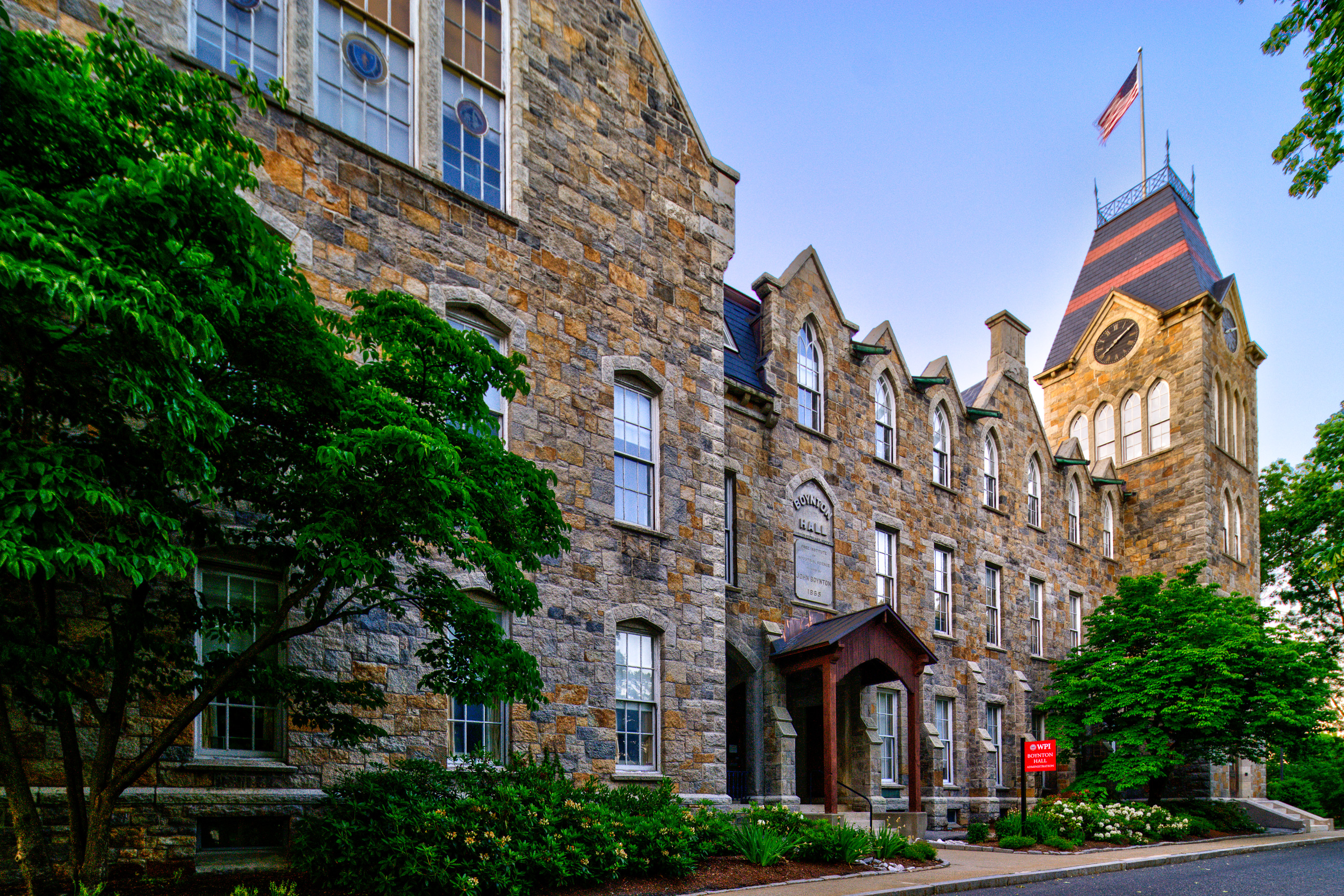 Boynton Hall, Worcester Polytechnic Institute. Dedicated 1868.